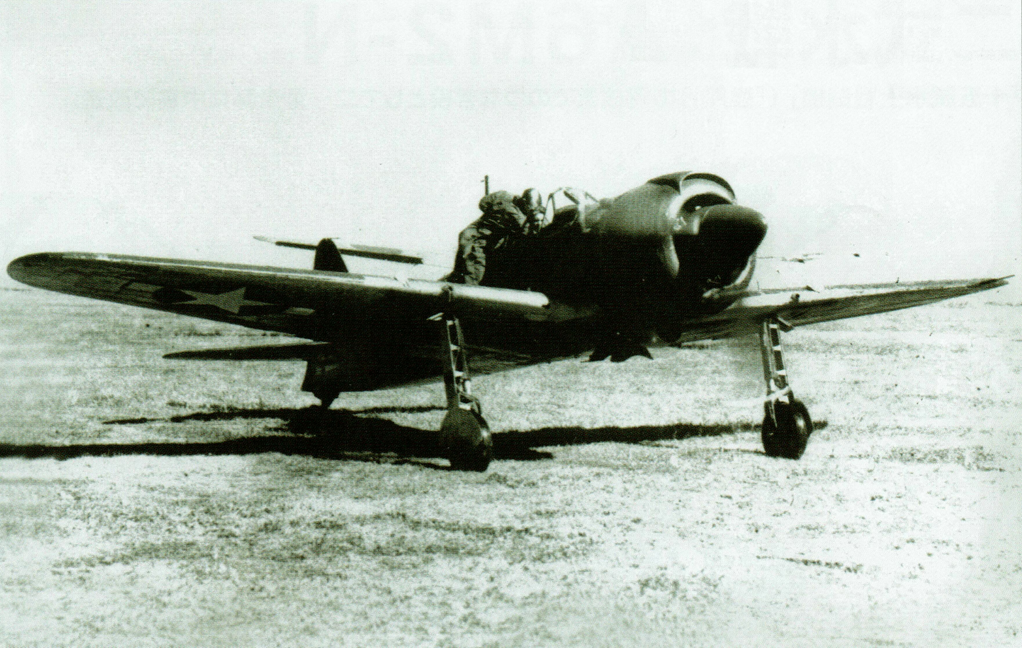 This is a A6M8, or Type 64 Zero. One of two complete Prototypes built being tested by US Forces at Misawa Airbase